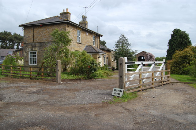 Station House, Gilling East A railway once ran through here. The station house is all that remains.